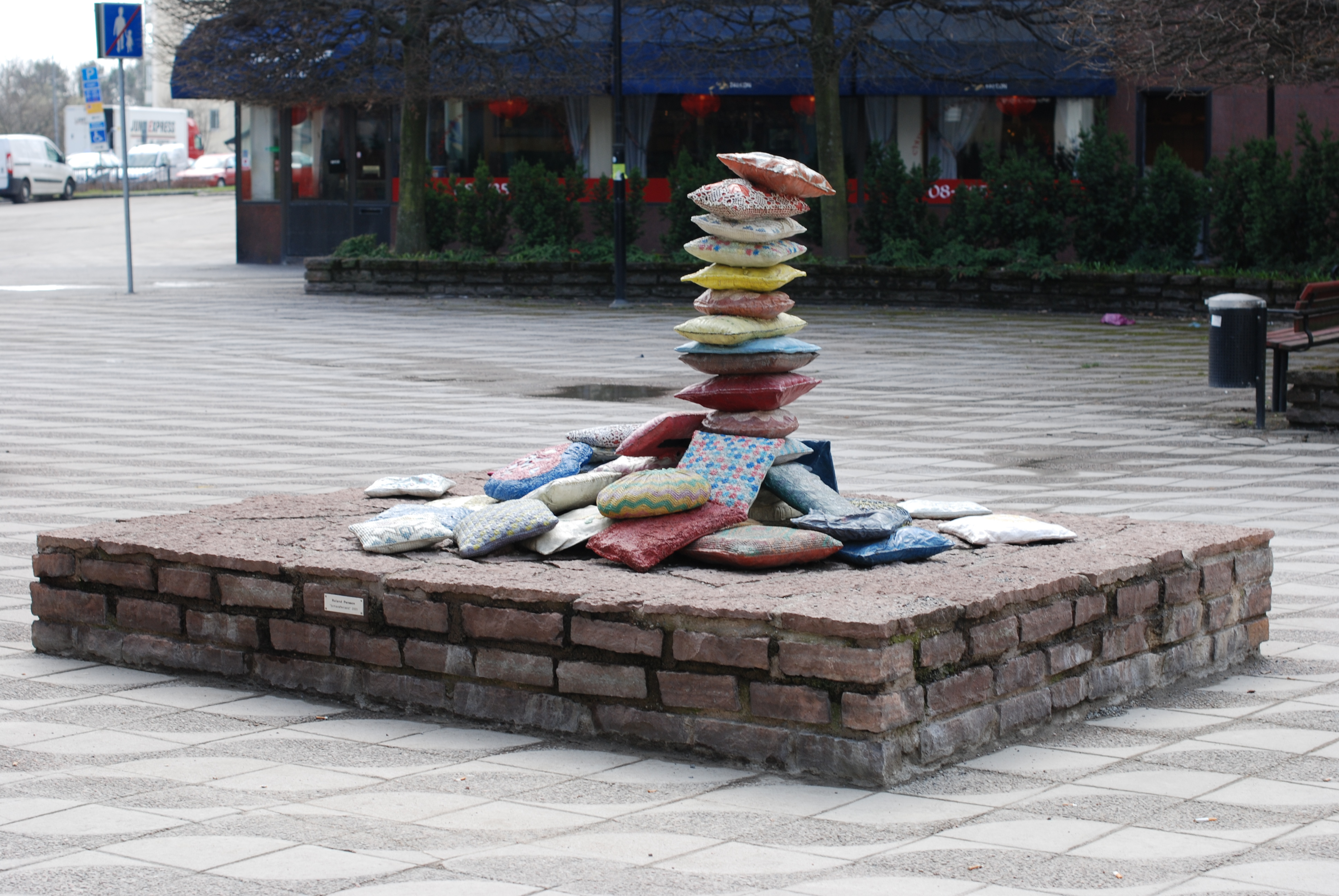 Roland Persson´s Schlaraffenland (2001), painted bronze, Johan Ernbergs Plats in Solna, Sweden